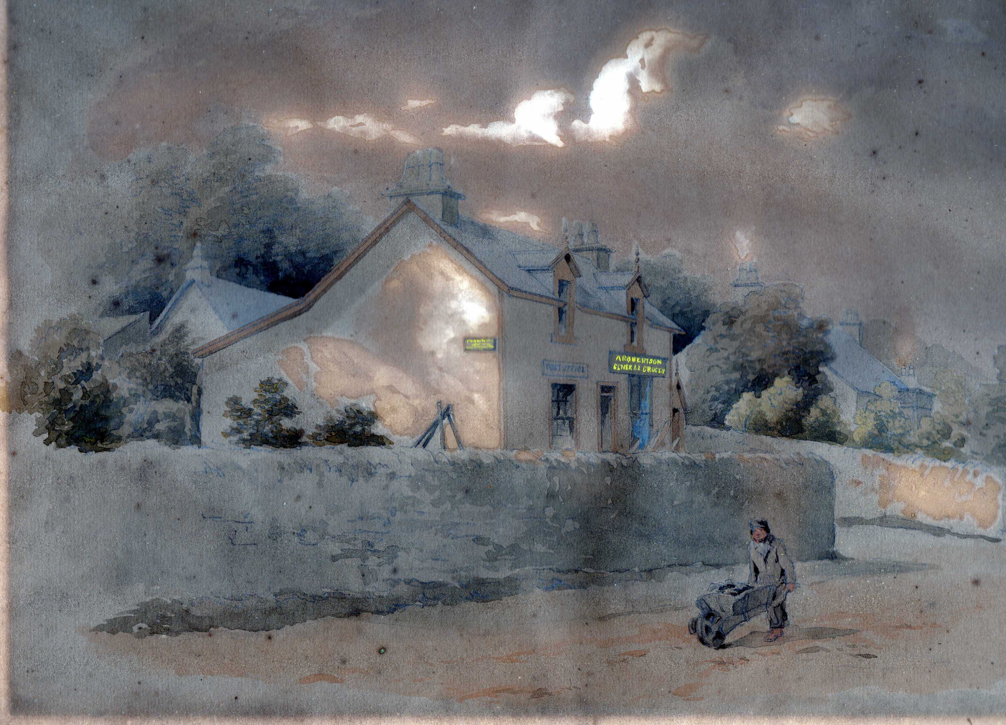 Site of Alexander Robertson's original boat yard - at his father's Grocer and Post Office (Eckvale, Sandbank), painting done circa 1860